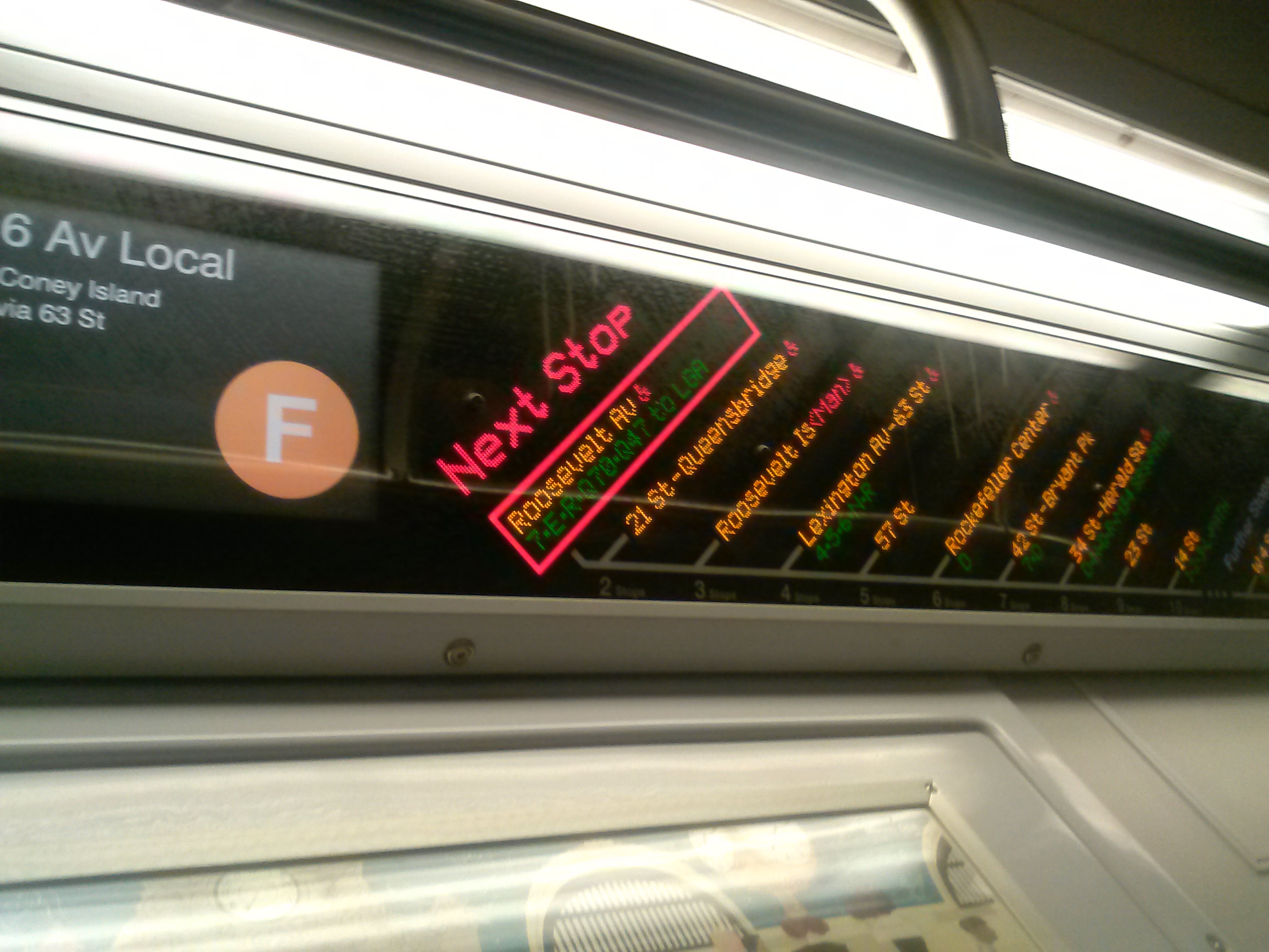 The FIND System on a Coney Island-bound F train.